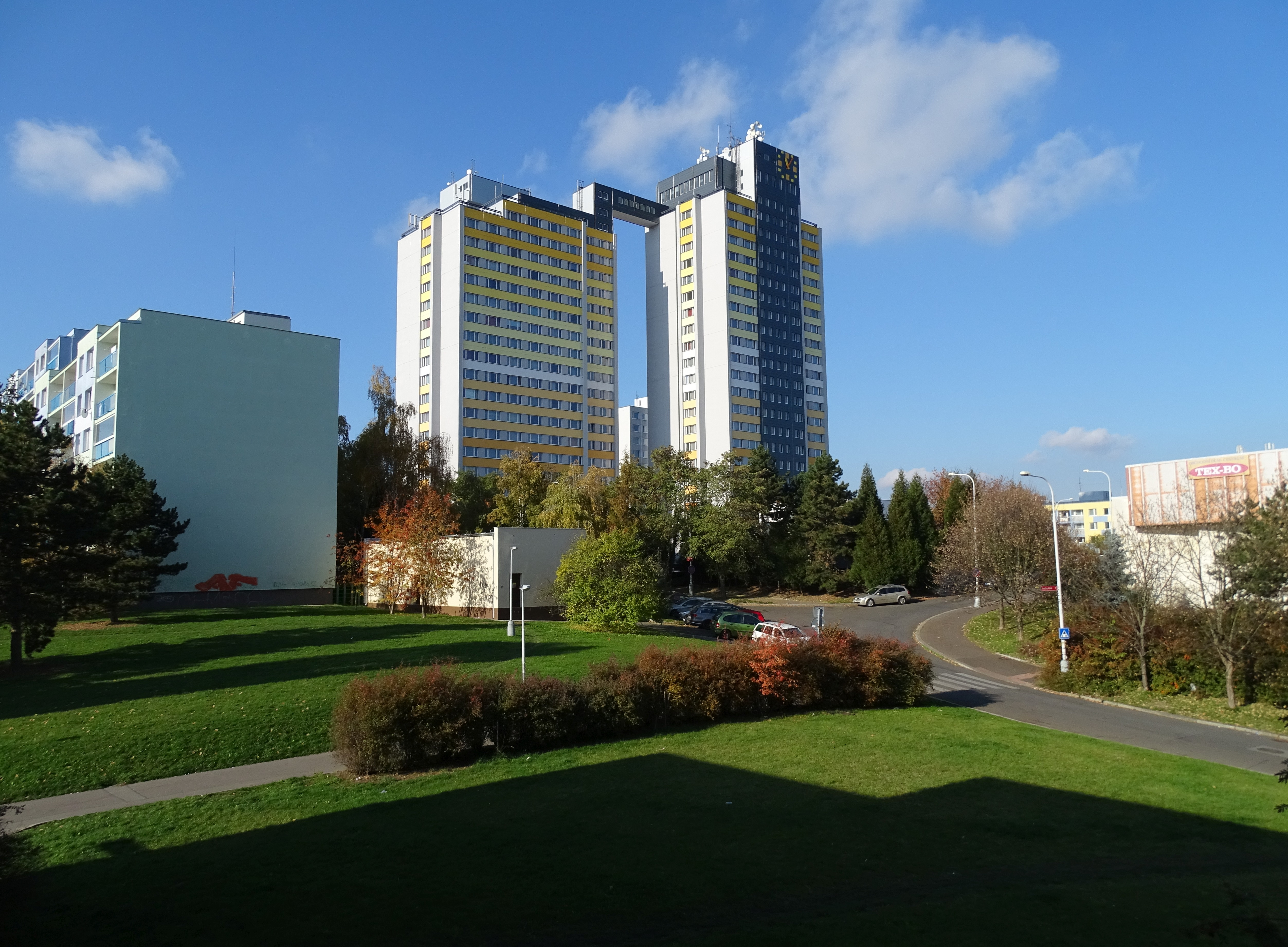 Prague-Háje, Czechia, Arkalycká and Kupeckého street, Hotel Kupa.